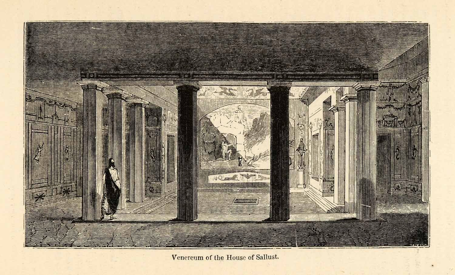 A woodcut of the venereum in the House of Sallust, Pompeii.